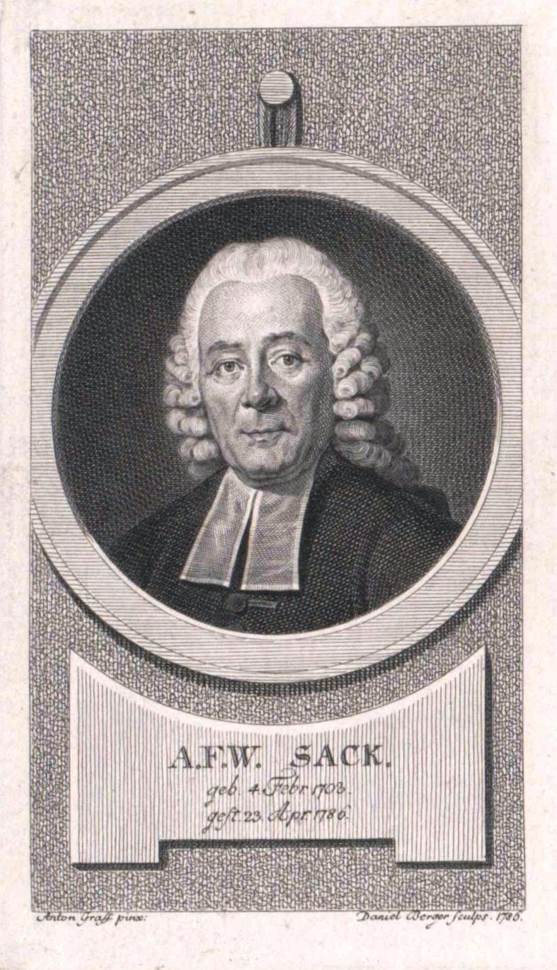 August Friedrich Wilhelm Sack (* 4 February 1703; † 22 April 1786), German philosopher